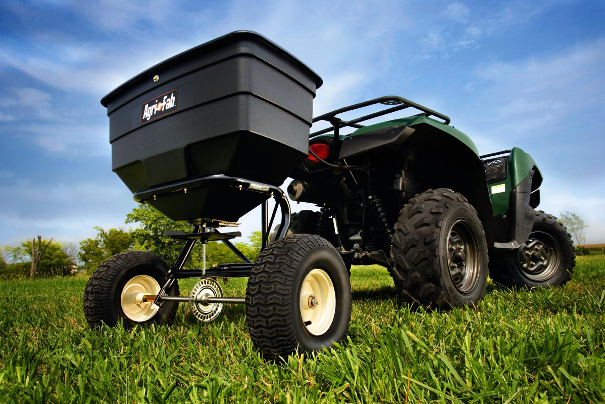 ATV with an Agri-Fab ATV tow spreader